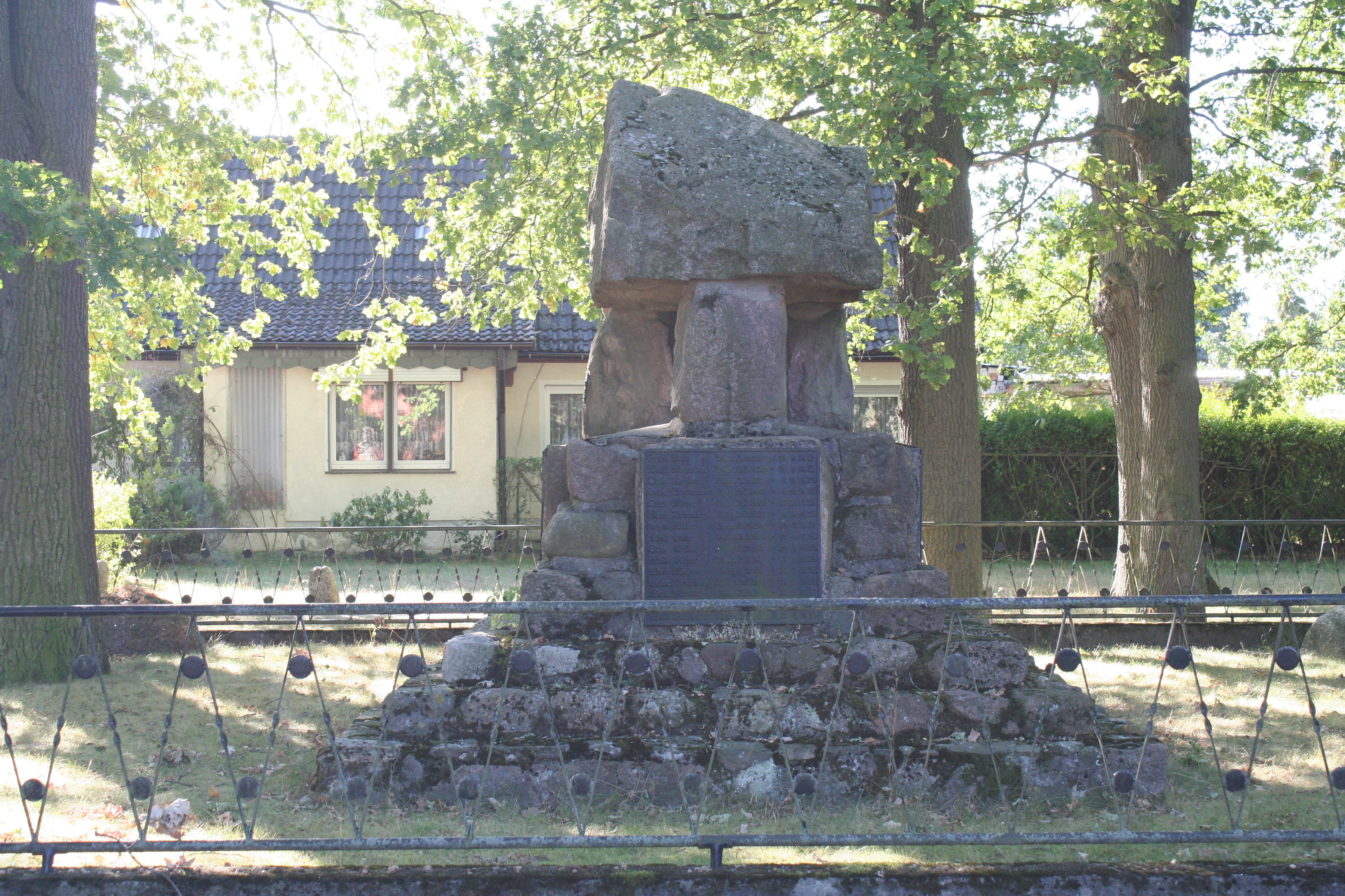 World War I-Memorial in Diesdorf